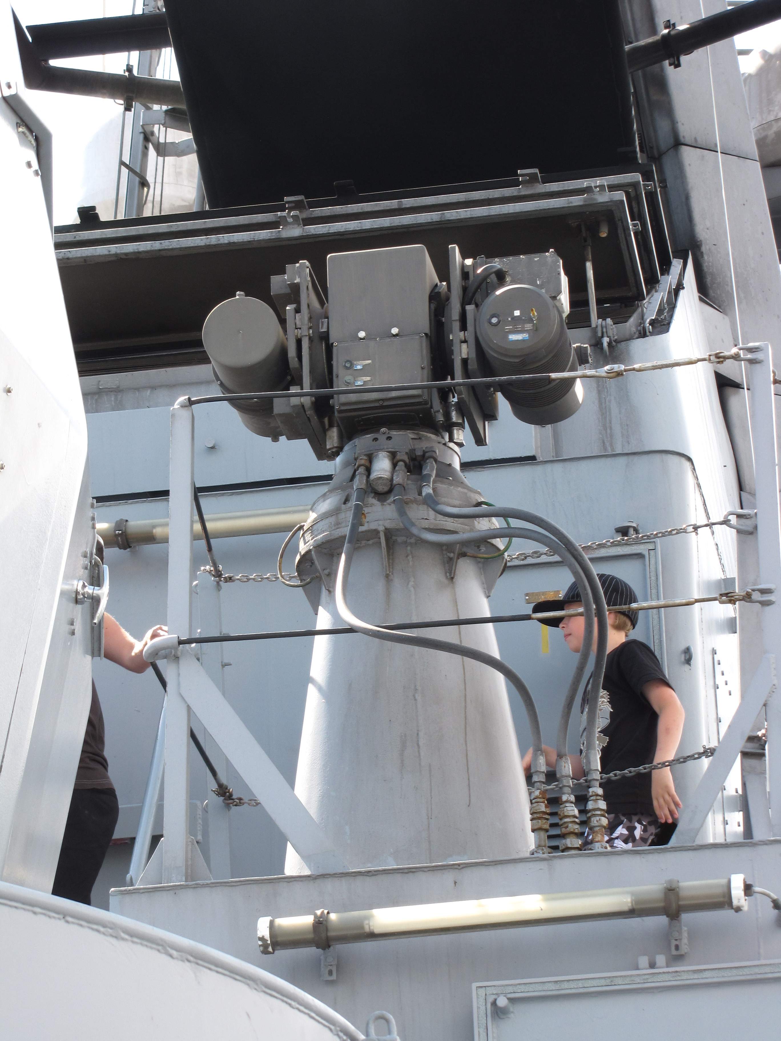 Saab EOS-400 optronic director onboard Finnish minelayer Pohjanmaa (01).